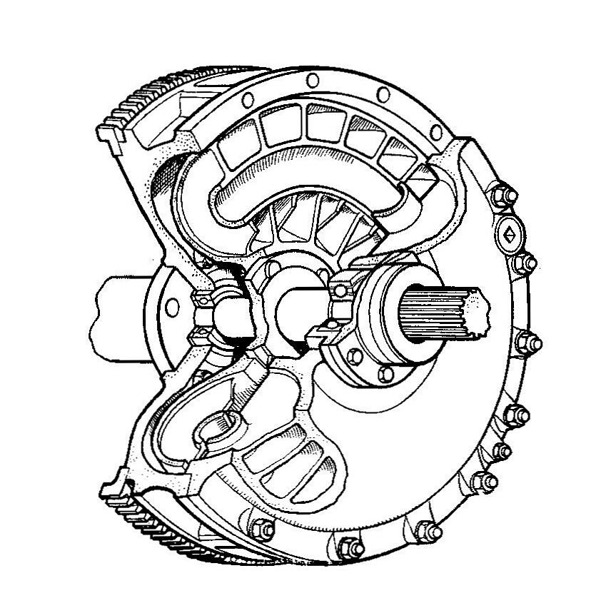 Fluid flywheel, part section (Autocar Handbook, 13th ed, 1935).jpg